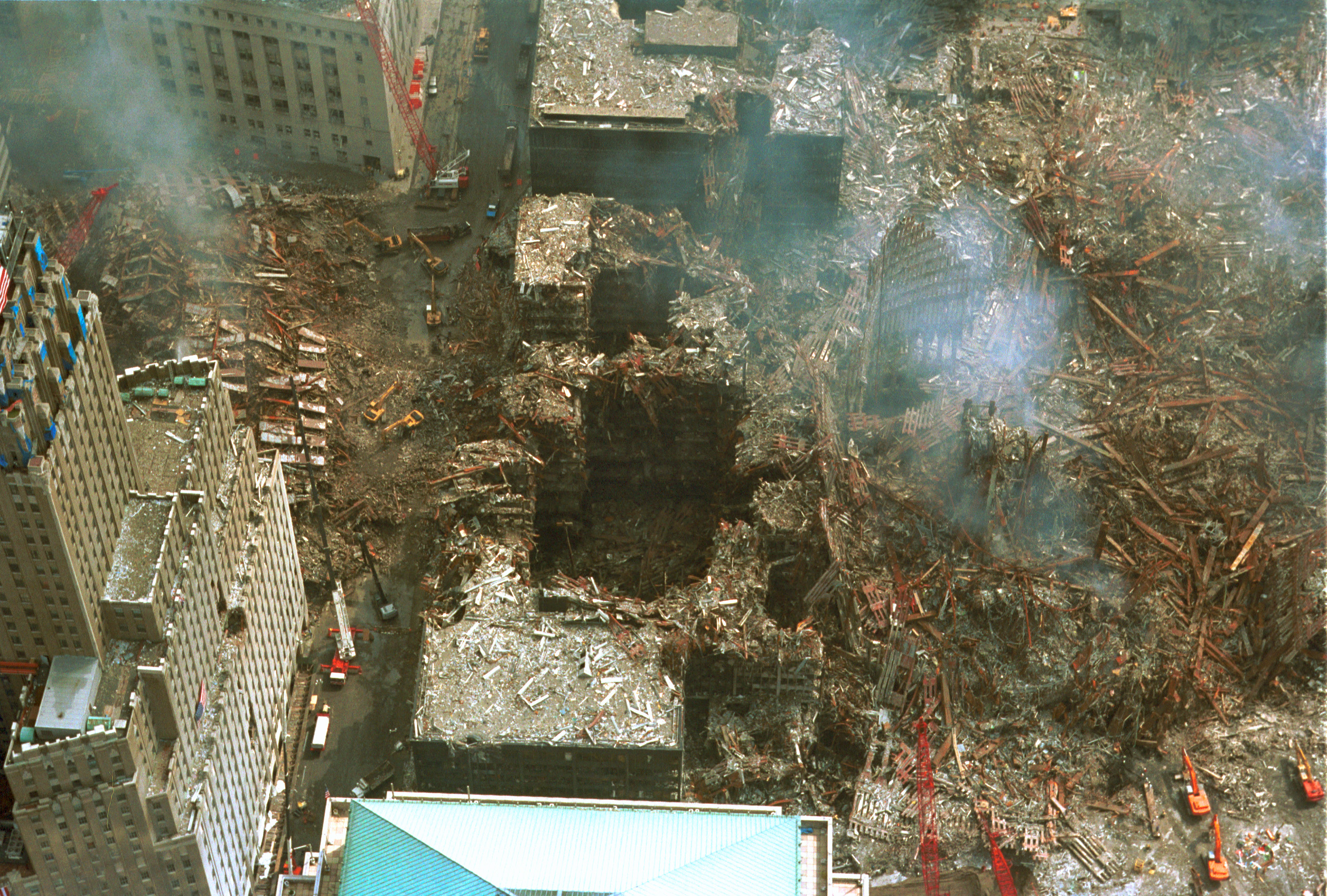 Original description by CBP: "The NYC Customhouse, building six of the WTC, from directly overhead."